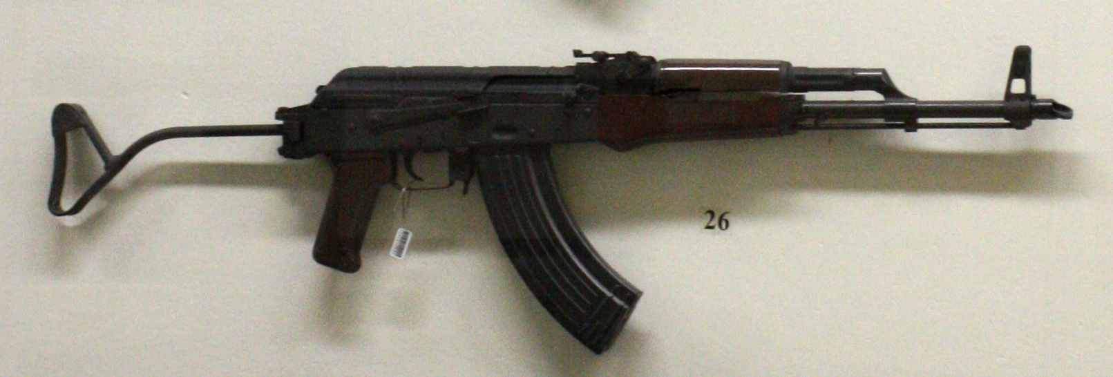 License produced east german AK-47; MPi KmS-72, Maschinen-Pistole Kalaschnikow mit Schulterstütze 72 (lit.: machine pistol Kalashnikov with shoulder support; technically: assault rifle Kalashnikov w. folding stock, model of 1972.) Stock folds to the right and is of genuine east german design. Everything else is pretty much a standard AKM with stamped receiver and plastic handguard.